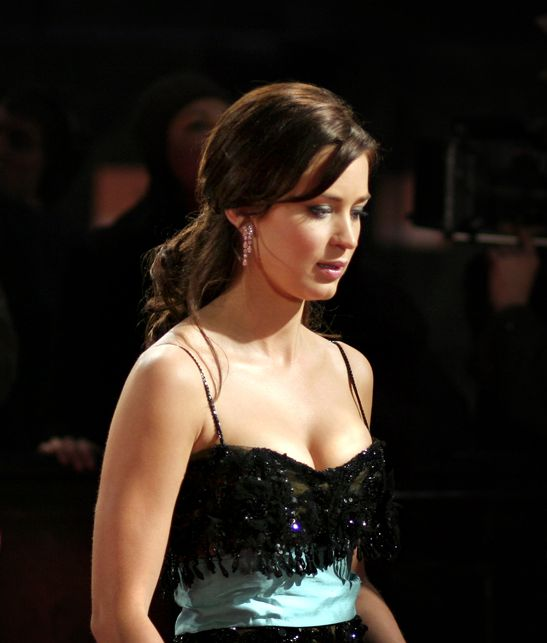 Emily Blunt at the Orange British Academy Film Awards in London's Royal Opera House